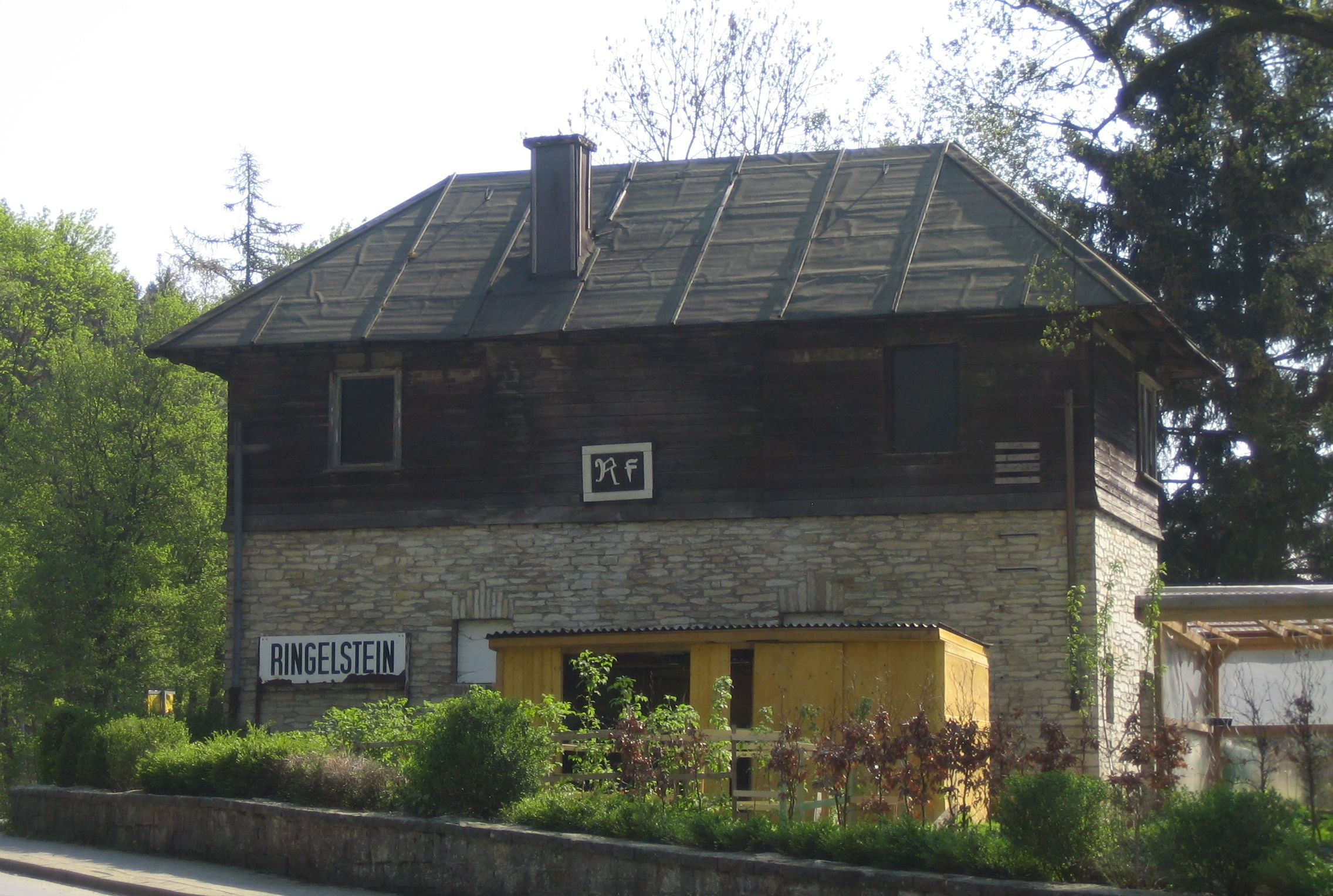 Ringelstein Train Station at Harth, Bueren, Germany